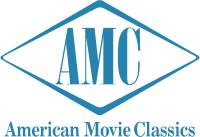 This is a logo owned by Rainbow Media (through Cablevision) for AMC (TV channel).